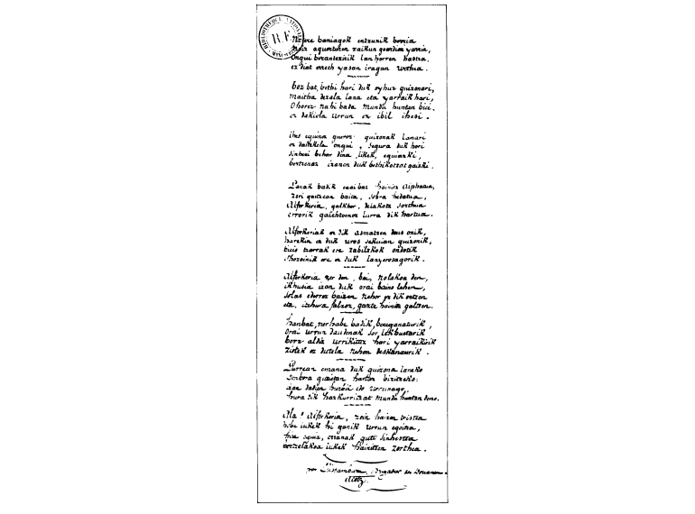 manuscript of Jean Baptiste Elizanburu